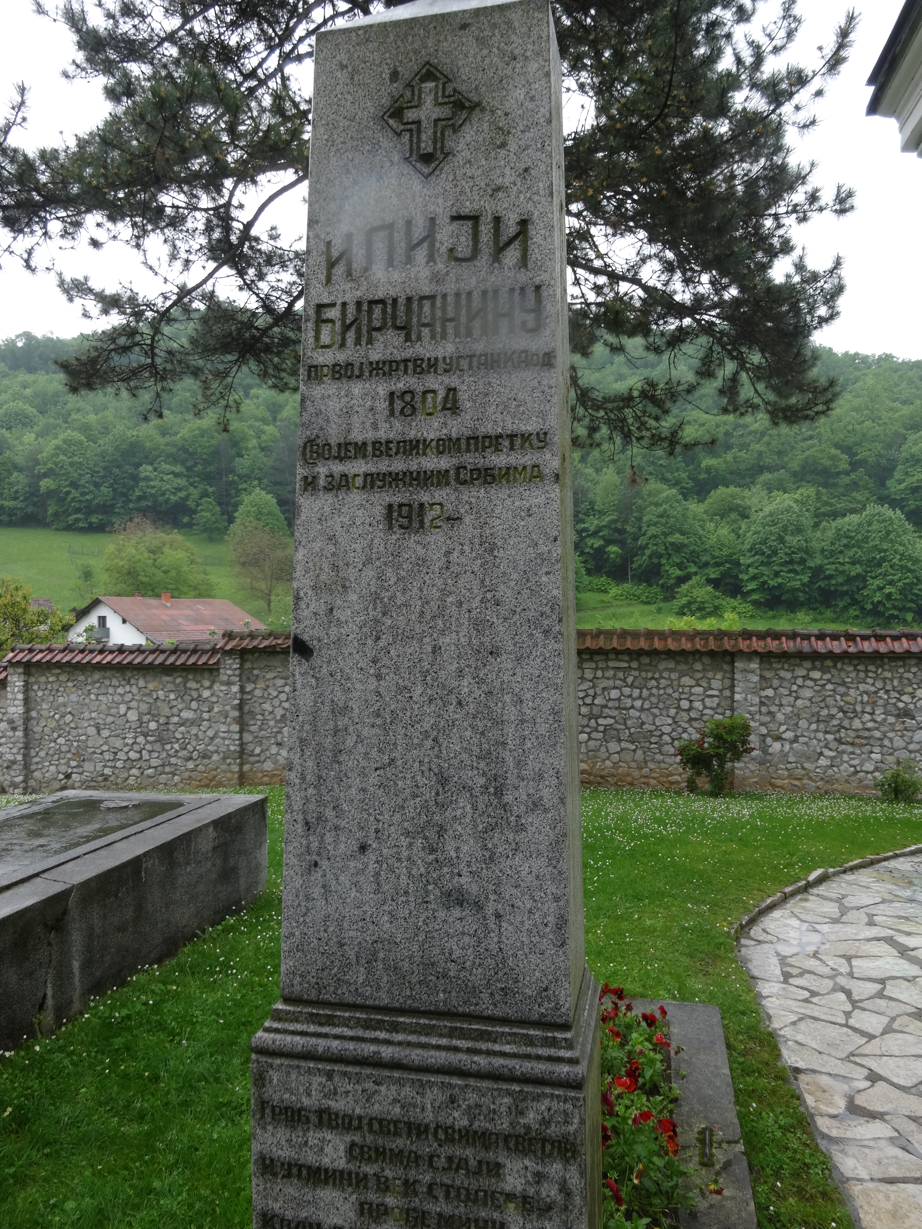 Ćelije Monastery is an orthodox monastery located near Valjevo.